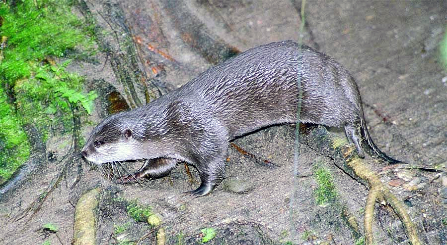 Aonyx cinerea Oriental small clawed otter